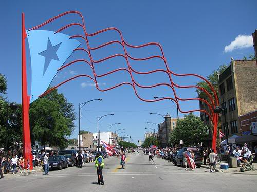 flag